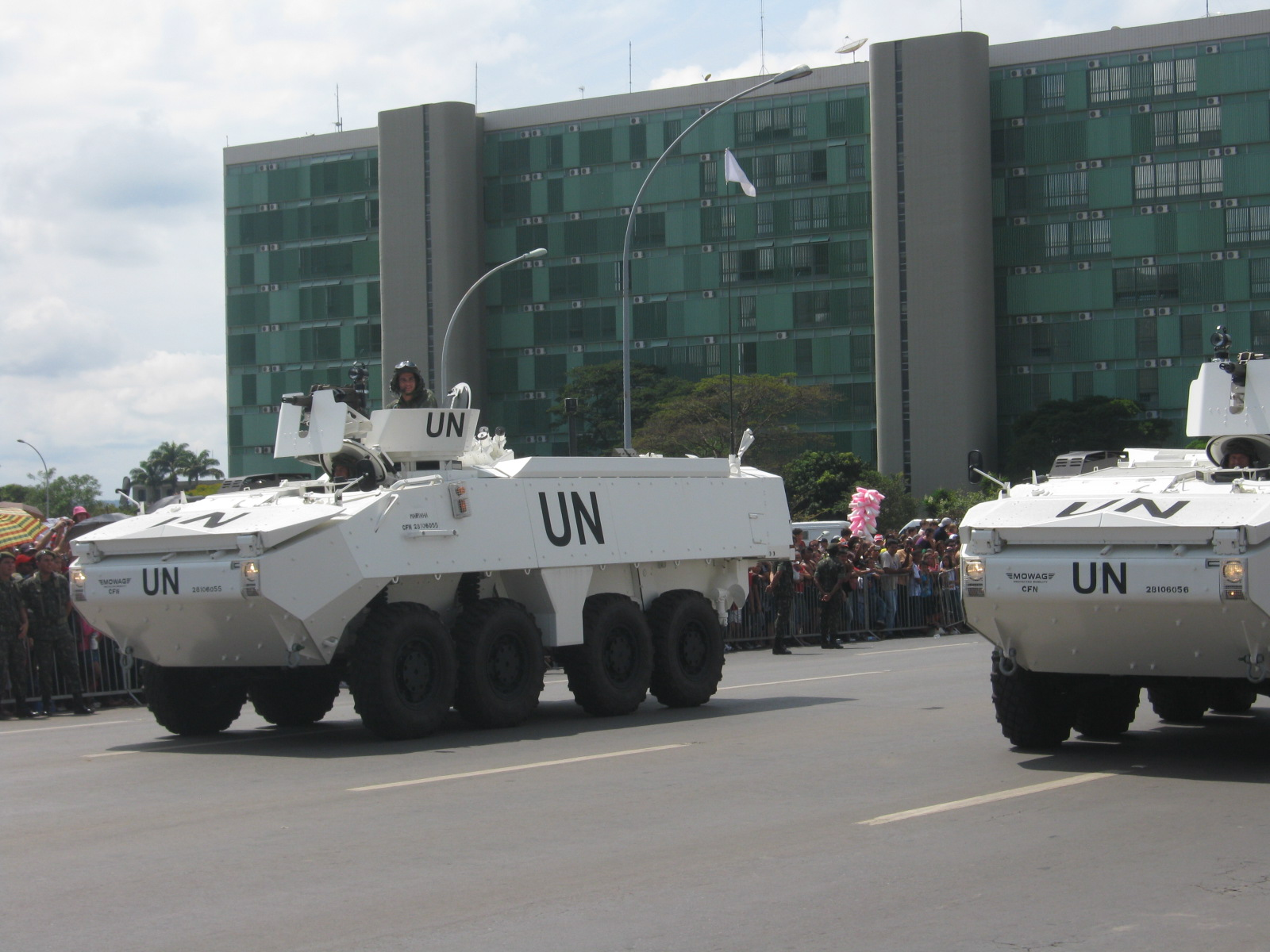 Brazilian MOWAG Piranhas during the 2009 Independence Day Parade in Brasília, Brazil (September 7th, 2009).